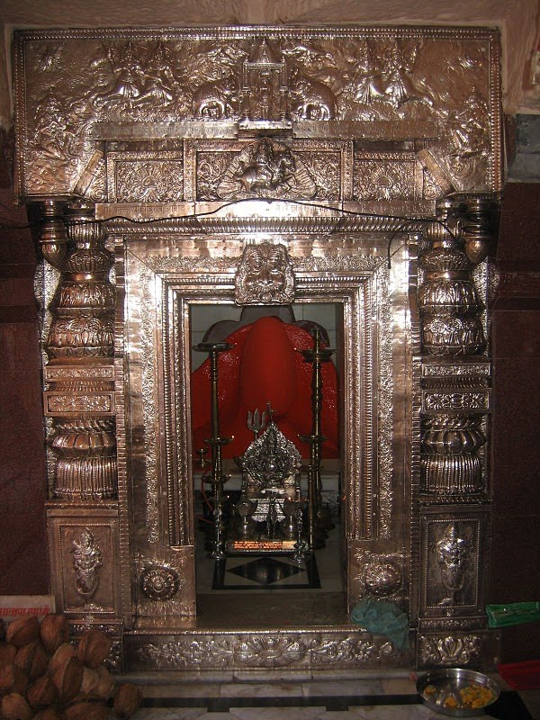 Bharamappa Temple or also known as Shri Kshetra Stavanidhi Brahmdev Digambar Jain Temple in Tavandi Ghat, Nipani, Belgaum District, Karnataka